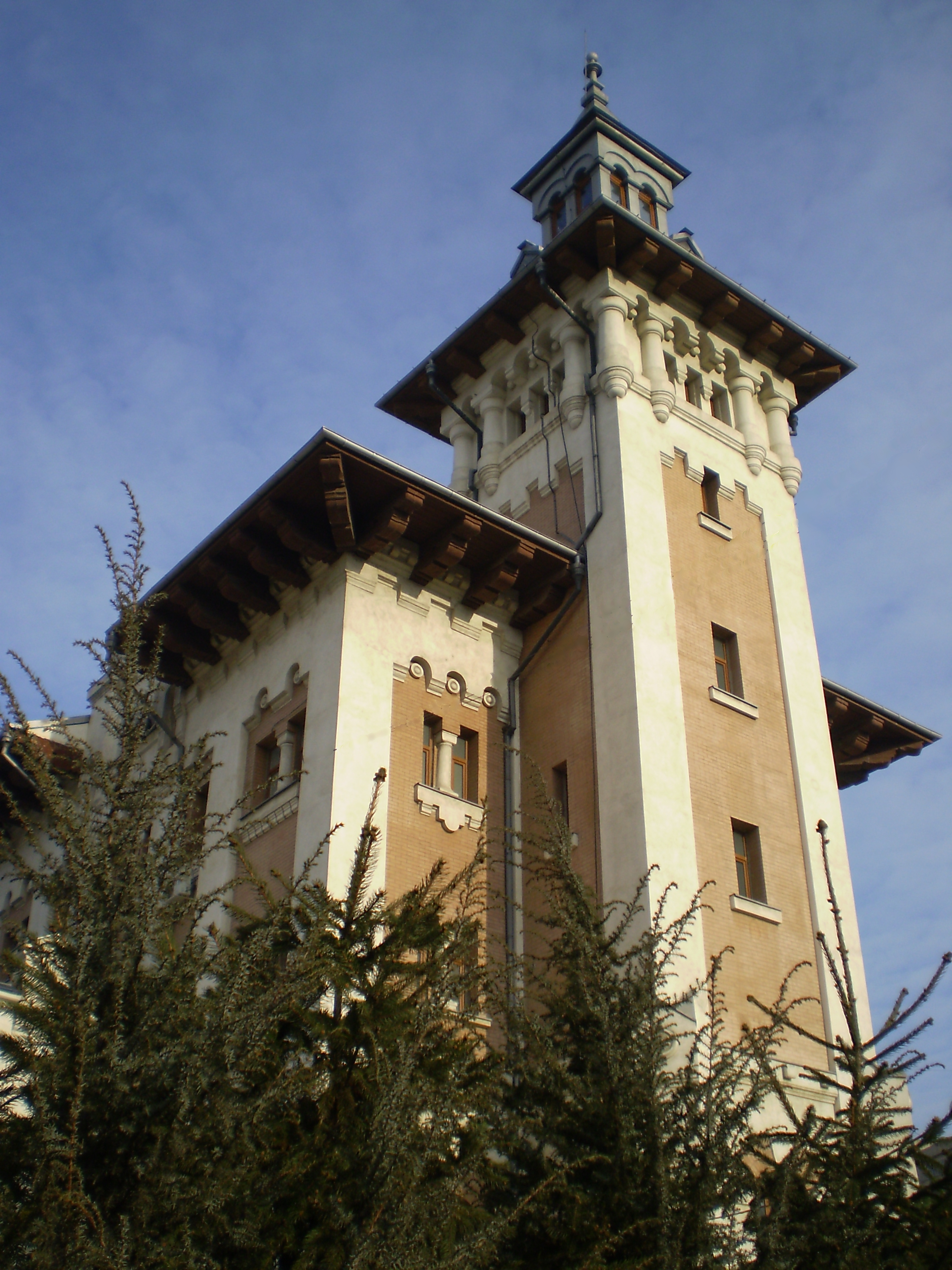 Iaşi , Old Customs Tower , Iaşi , Romania